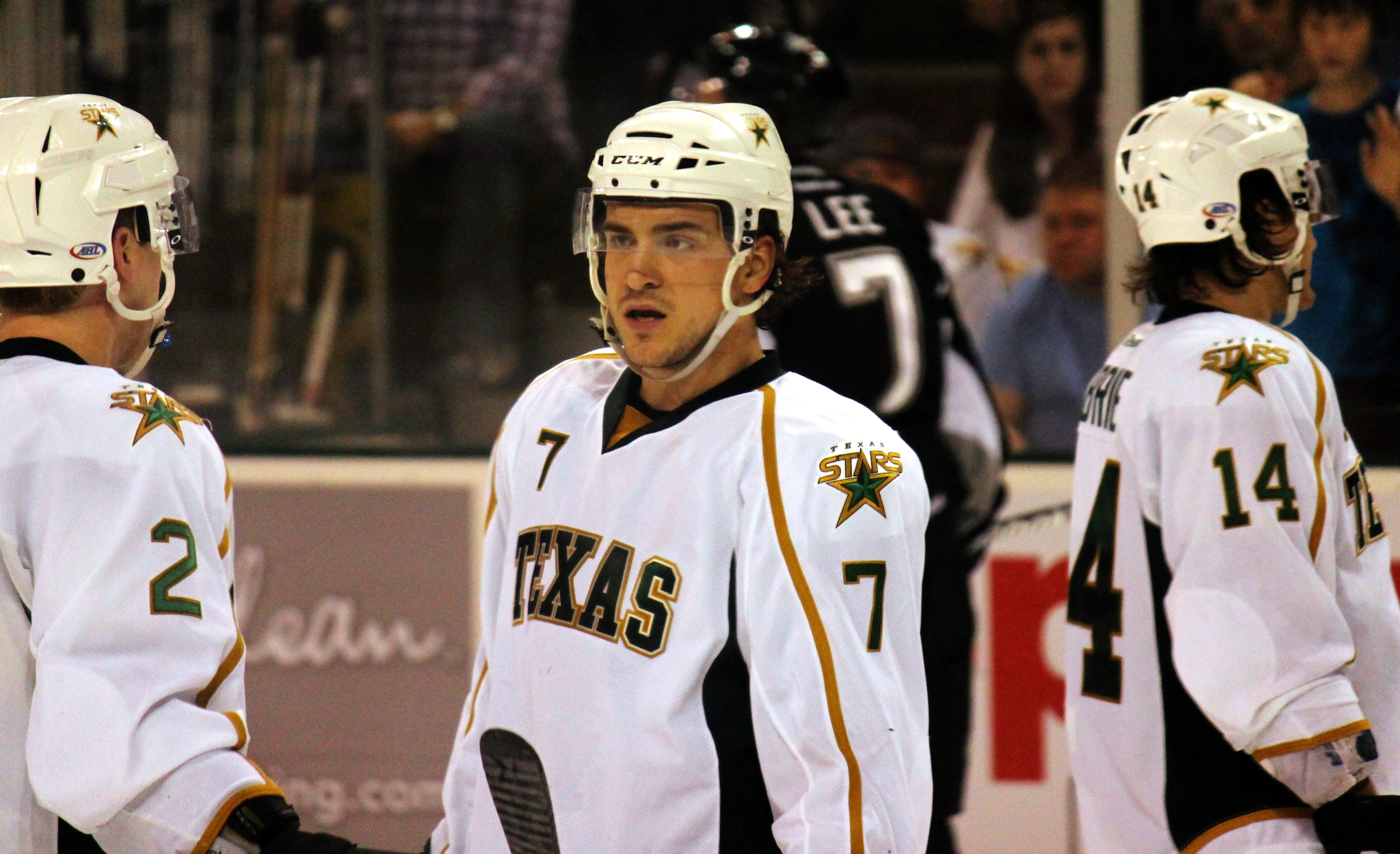 Colton Sceviour of the Texas Stars